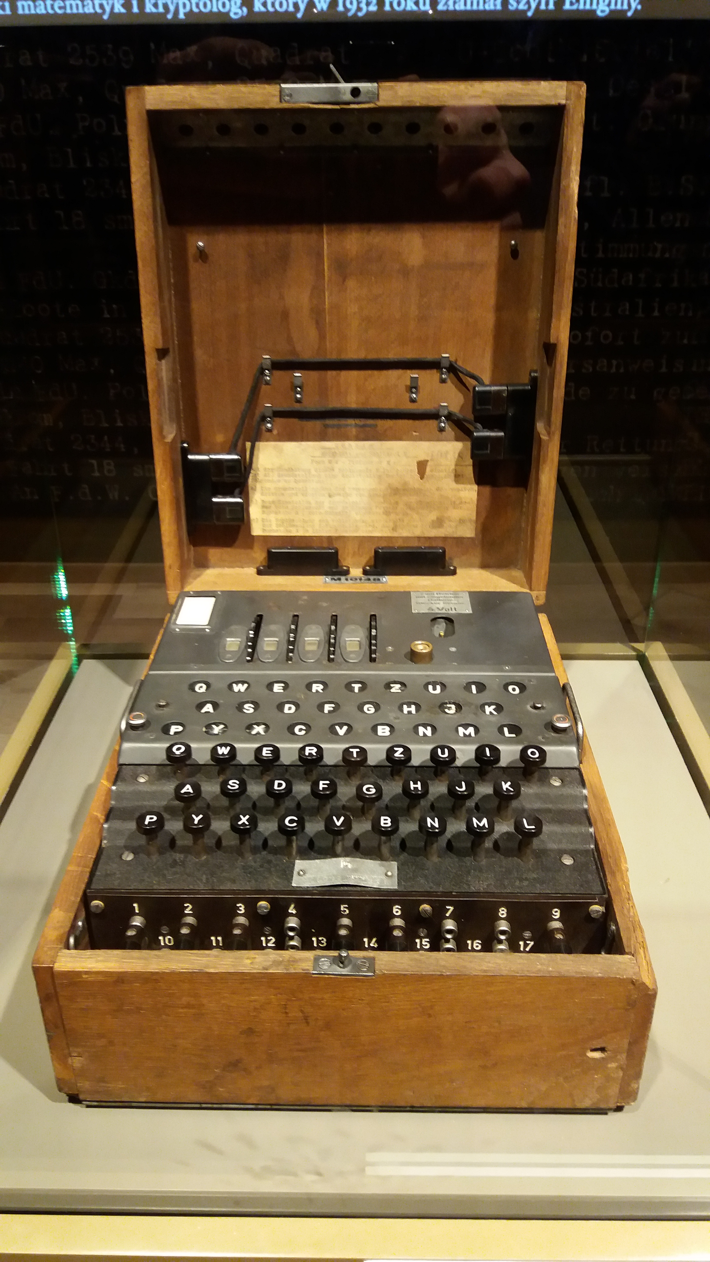 Enigma cipher machine at permanent exhibition inside Museum of the Second World War, Gdańsk, Poland.